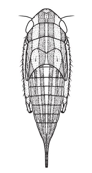 Nymph of Pendarus magnus.